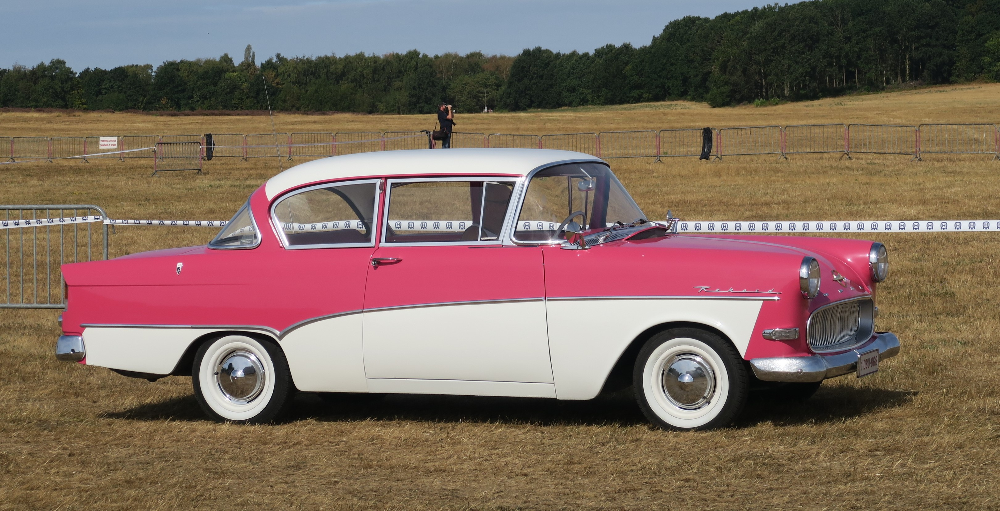 Opel Rekord P1